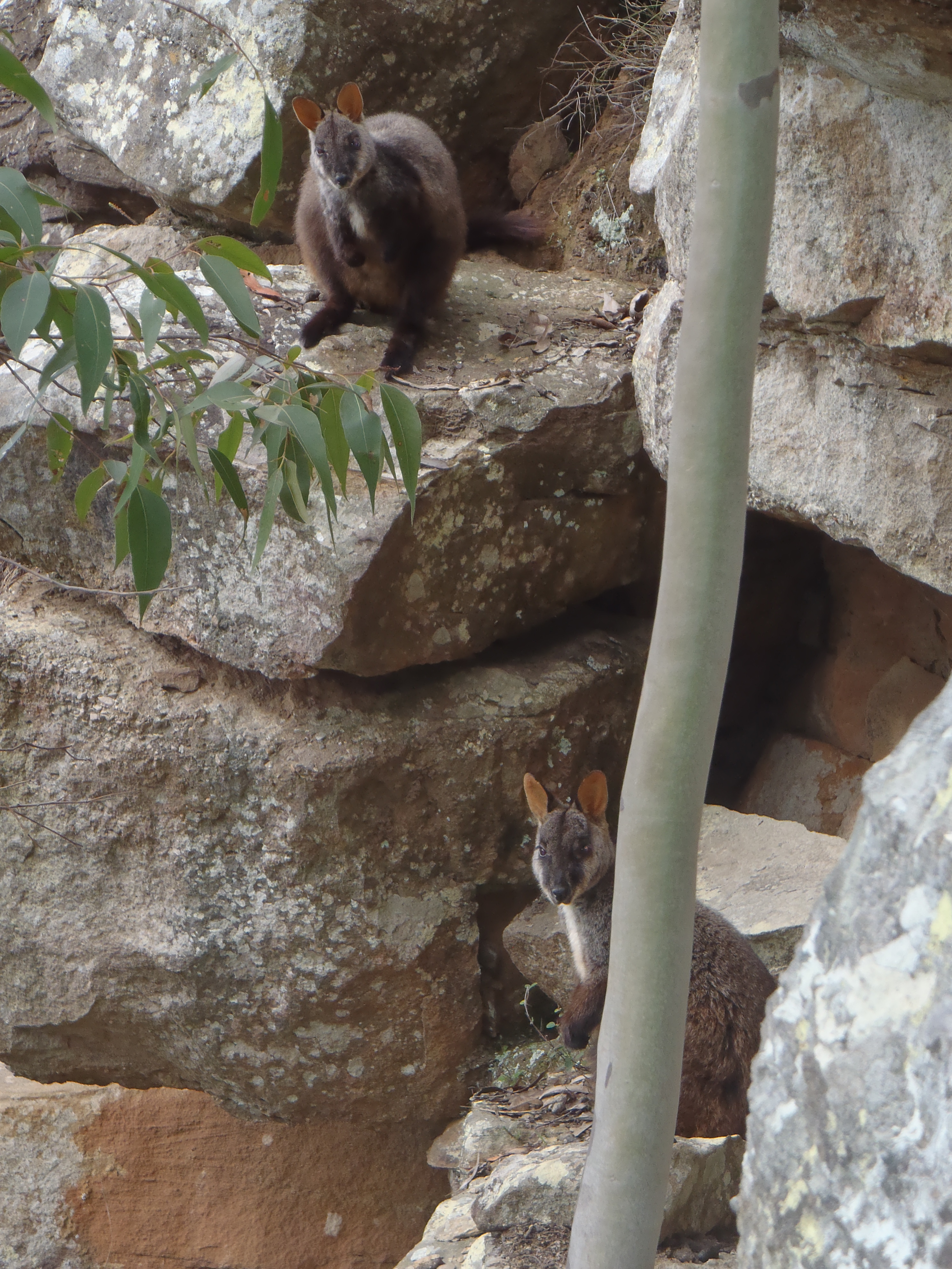 Brush-tailed Rock-wallabies in the Watagan Mountains on the NSW Central Coast. Photos Courtesy of Mark Hodgins